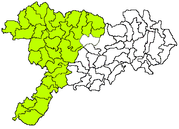 Madanapalle revenue division in Chittoor district